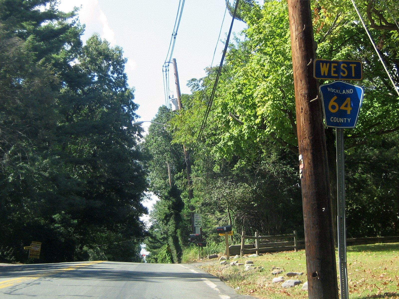 CR 64 begins here at Maple Ave in Monsey. It provides an alternative route to Suffern/Montebello for NY 59.